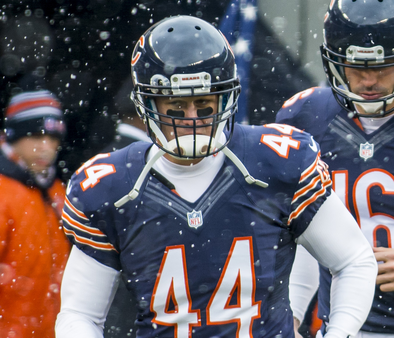 Chicago Bears long snapper, Jeremy Cain, in a game against the Minnesota Vikings on November 16, 2014.